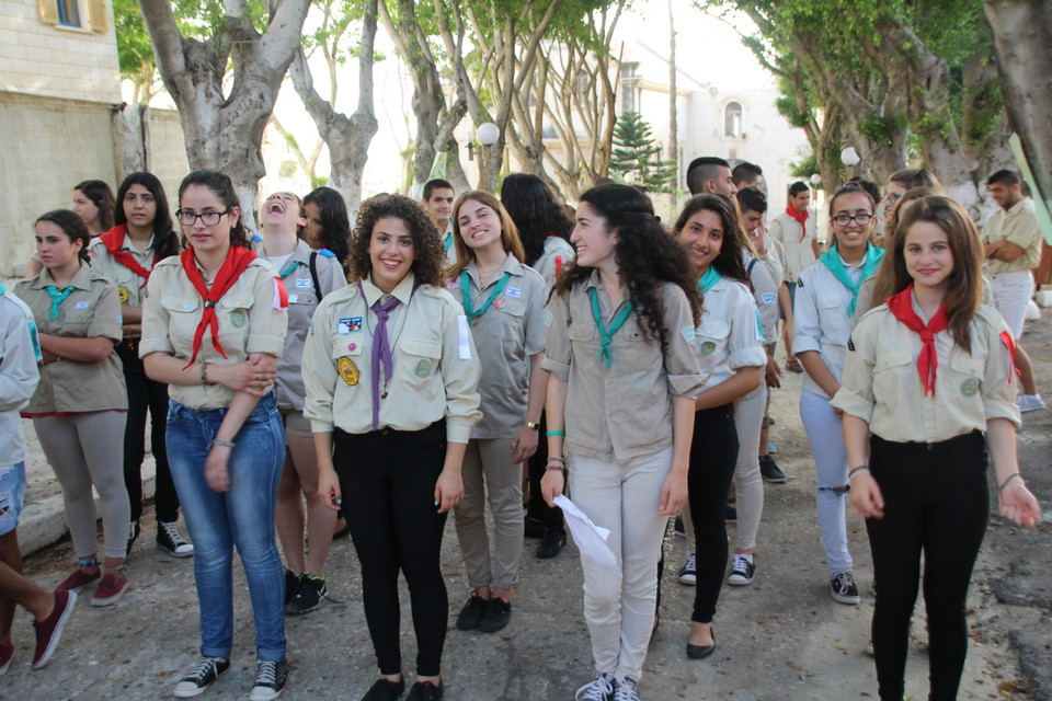 Existence Circle Meeting - Israel Scout Federation